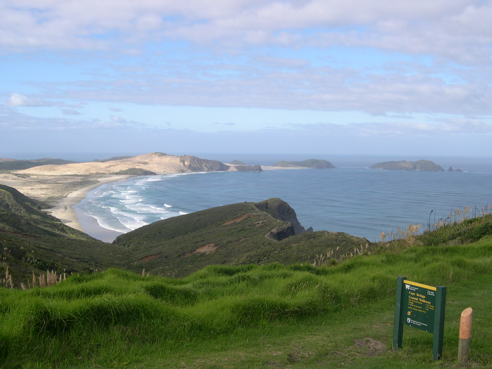 Cape Maria Van Diemen and Te Werahi Beach, seen from the Cape Reinga Car Park.